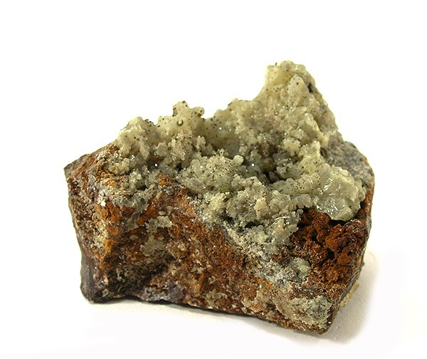 Iodargyrite Locality: Broken Hill Proprietary Mine (Proprietary Mine; BHP Mine), Broken Hill, Yancowinna County, New South Wales, Australia (Locality at ) An impressively rich, colorful specimen of this very rare silver species, from the classic and best locality of old Broken Hill. It was formerly in the Don Belsher collection, and he got it from Walt Lidstrom in 1984. Iodorgyrite is the rarest of the group of related silver chlorides from Broken Hill, and the hardest to obtain today in good crystals. These were mined in the 1940s mostly (with perhaps a trickle coming out later in the 60's ?). This specimen has EXTREMELY sharp, wellformed crystals and they are translucent yellow and attractive, with good lustre (better in person). The specks on top seem to be minute crystals of the related species chlorargyrite. 4.6 x 4.2 x 3.1 cm